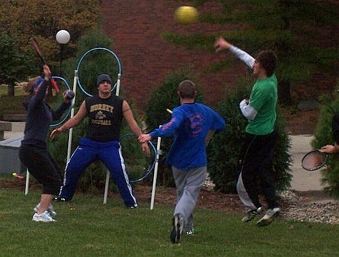 A Ravenclaw/Slytherin Muggle Quidditch game played between Millikin University students.